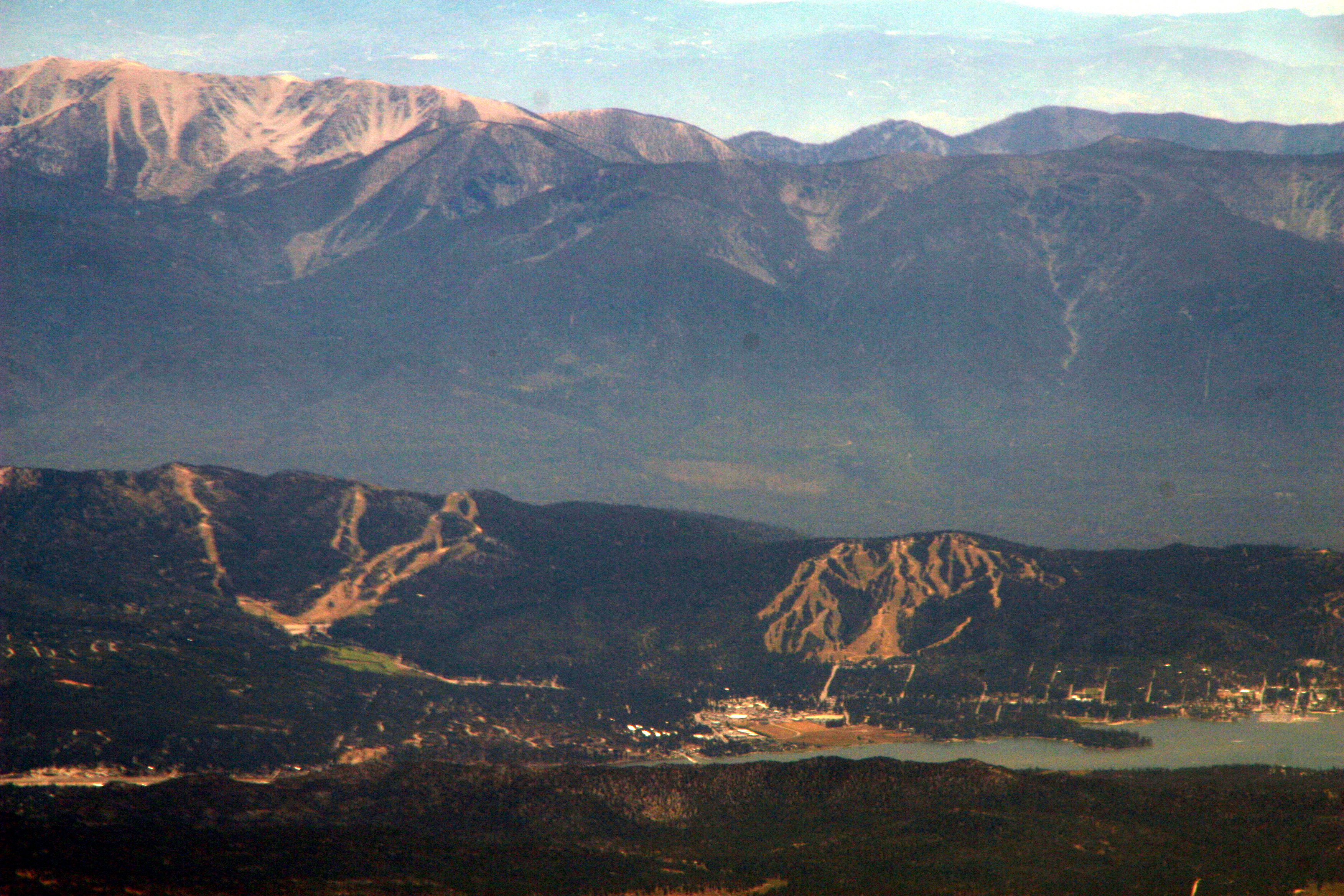 Big Bear ski areas. Mt. San Gorgonio and San Jacinto in the backgrounds.